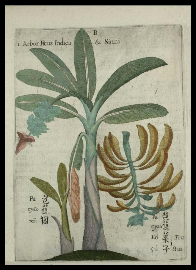 One of the earliest natural history books about China. Jesuit Missionary author. (obviously includes some non-Chinese {and non-floral}species)